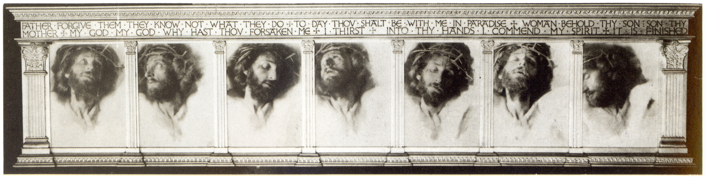 Fred Holland Day: Die sieben letzten Worte Christi (The Last Seven Words of Christ)